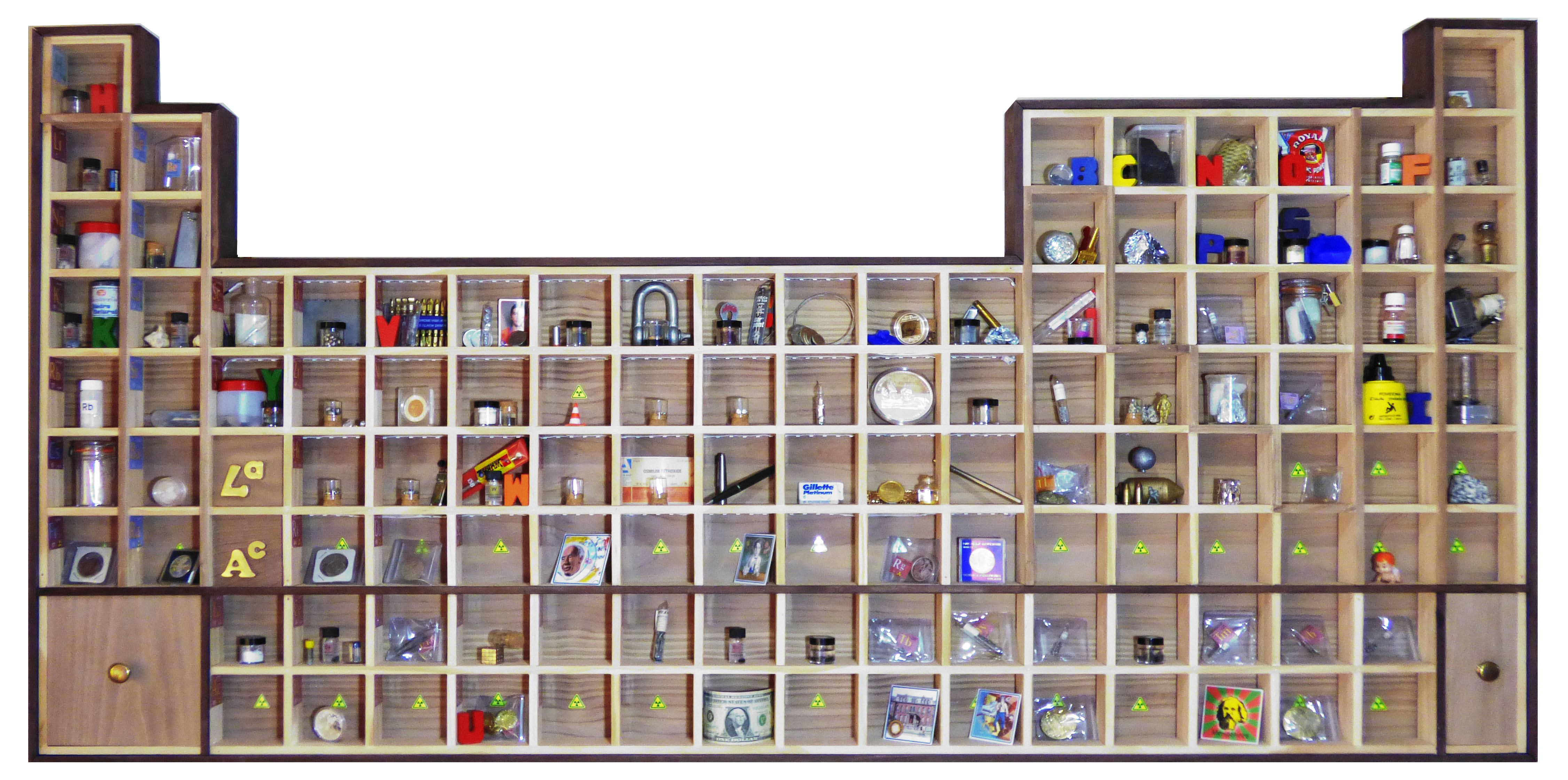 Complete collection of elements of the periodic table.